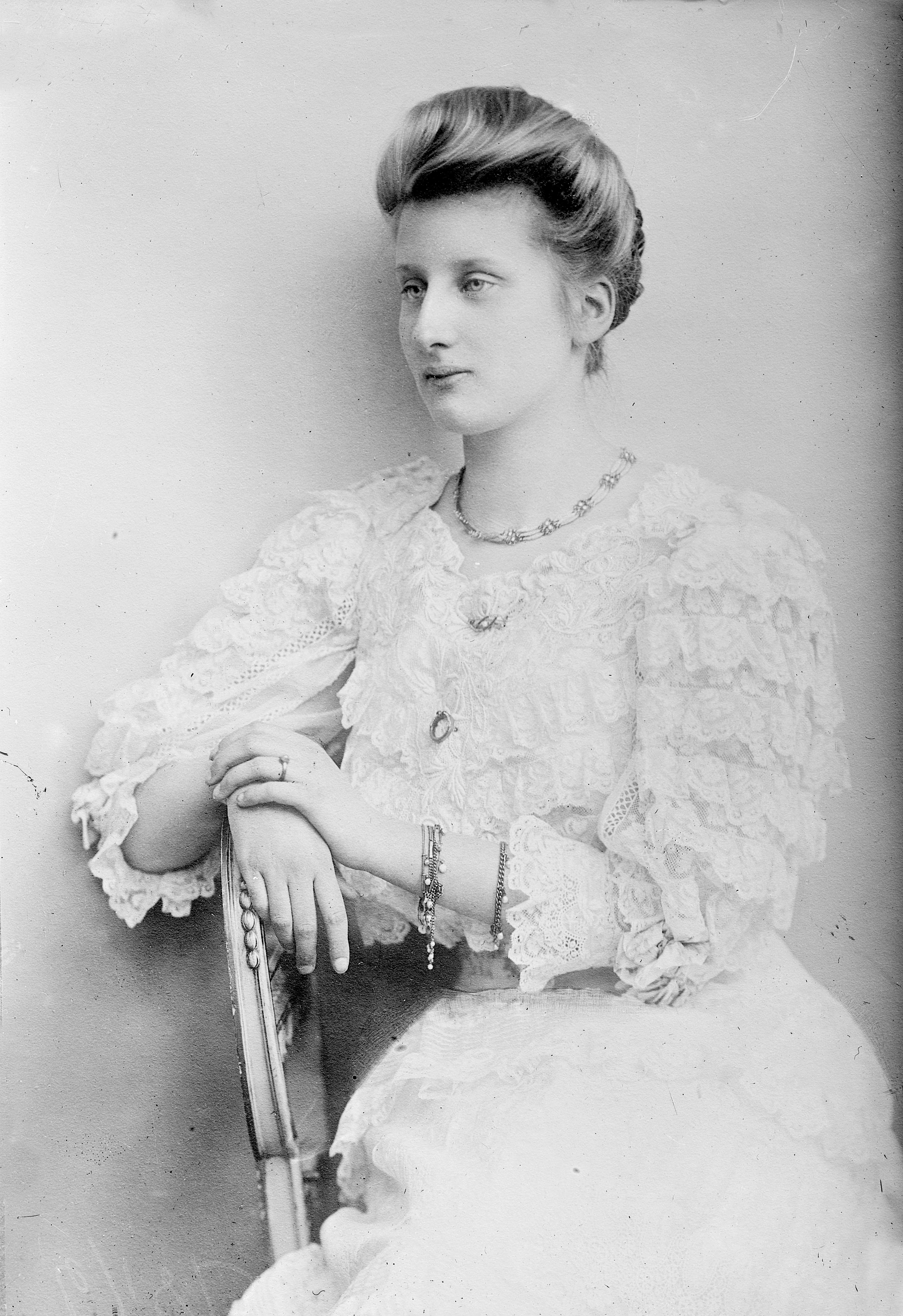 Augusta Victoria of Hohenzollern wife of King Manuell II of Portugal.